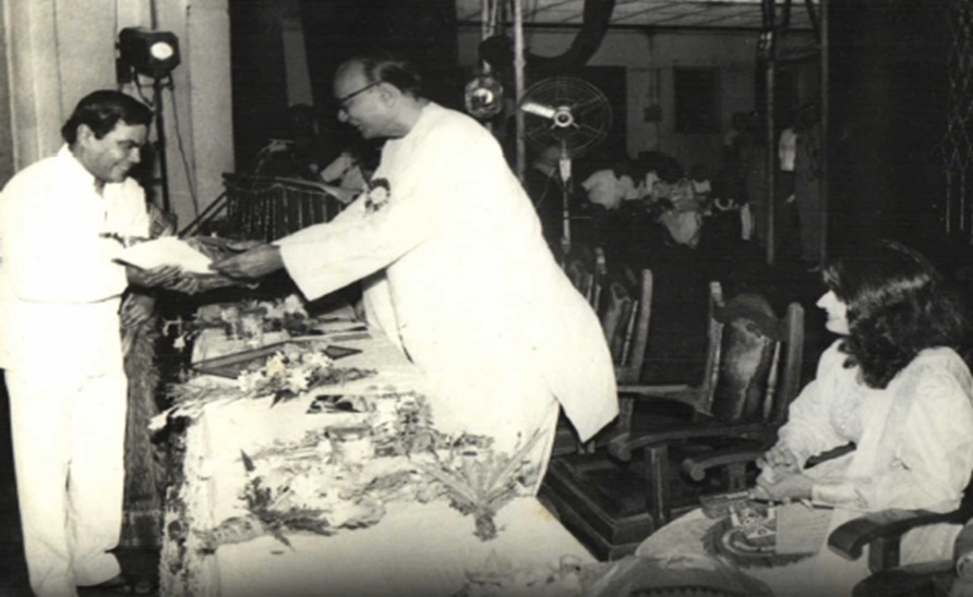 Biswajit receiving award